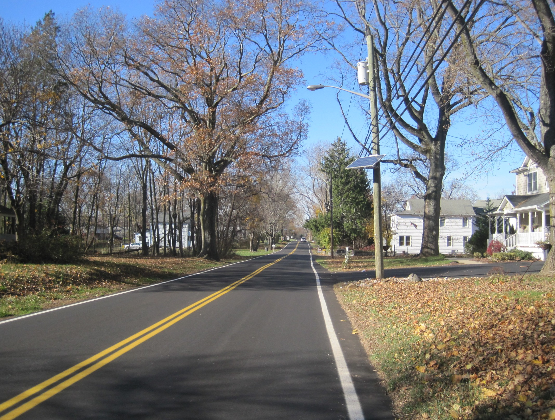 Photo of Cottageville, New Jersey, an unincorporated community within South Brunswick, Middlesex County. Photo taken along westbound Davidson Mill Road.